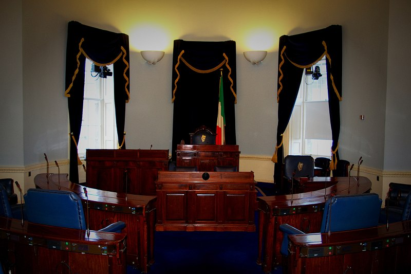 This is a photograph of the Seanad chamber, Leinster House, Kildare Street, Dublin Ireland. The Seanad is the upper house of the Irish parliament(Oireachtas). It is the chamber and seat of the Irish Government senators (Seanadóirí). The photograph was taken on 28th of June, 2008 at the inaugural opening of the Houses of the Oireachtas for a 'family fun day'. This we were told (by the guides) was the first time that photography was permitted inside the houses of the Oireachtas.